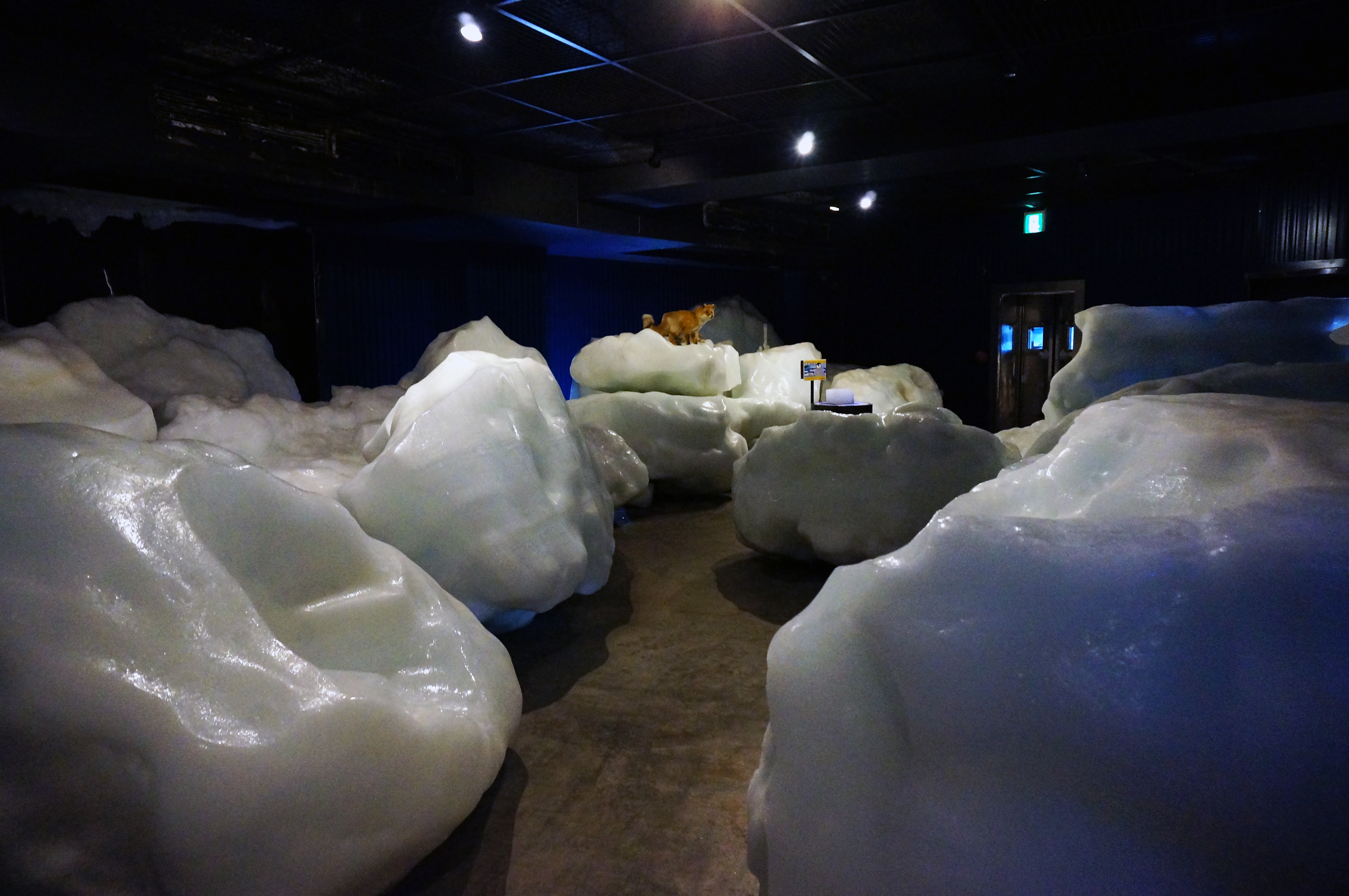 Okhotsk Ryu-hyo Museum in Abashiri, Hokkaido, Japan.